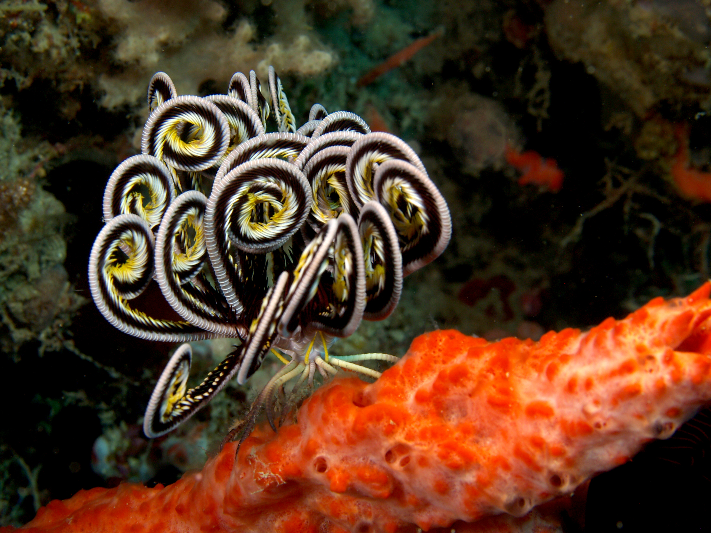 Feather star